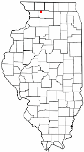 Category:Illinois city locator maps